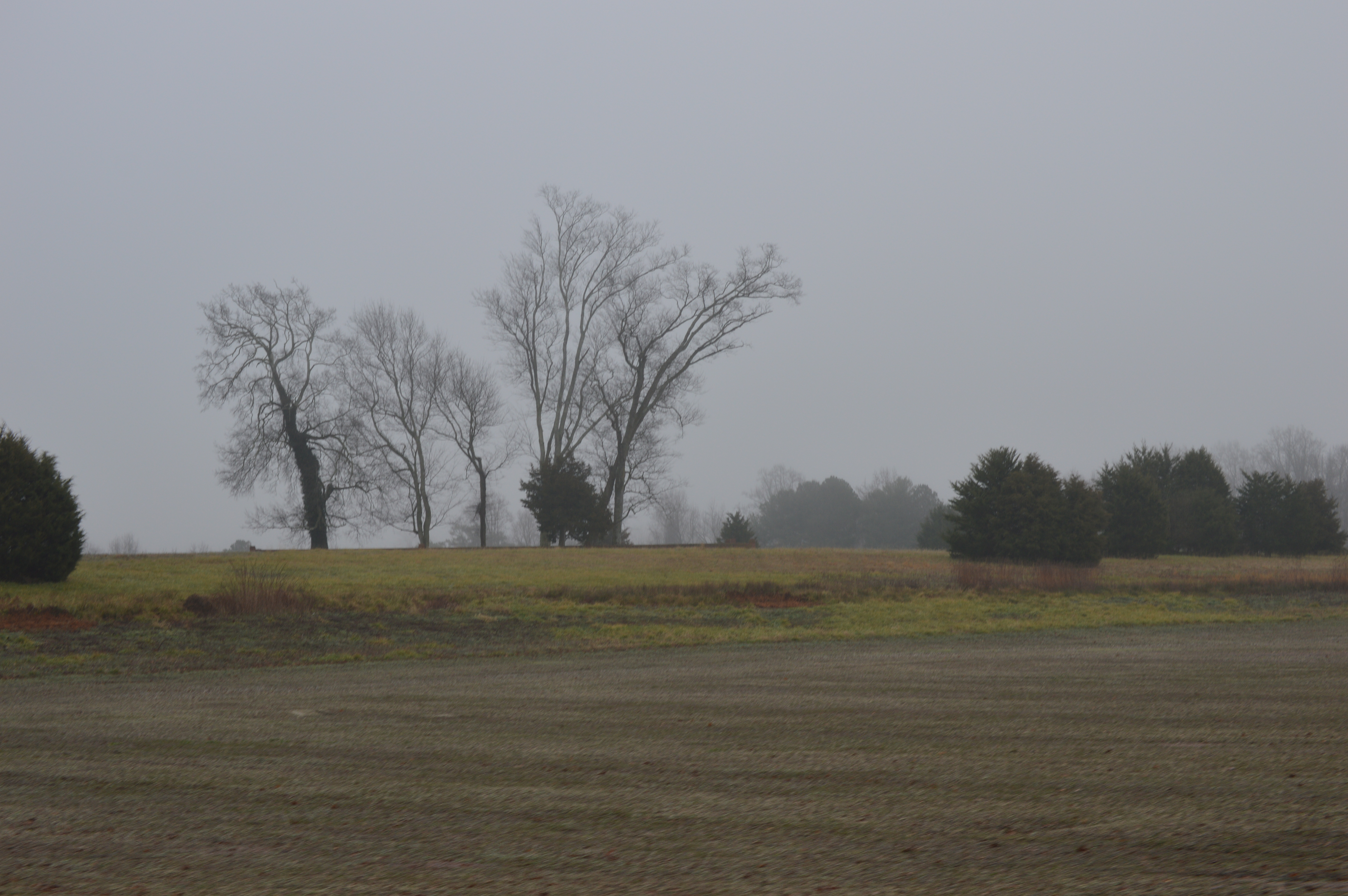 Overview of the site of Fort Mattapony, seen looking eastward from Walkerton Landing Road just northeast of Walkerton in King and Queen County, Virginia, United States. In the 1680s, Virginians built the fort to protect friendly Mattaponi Indians against enemy Indian tribes. The fort site is listed on the National Register of Historic Places.